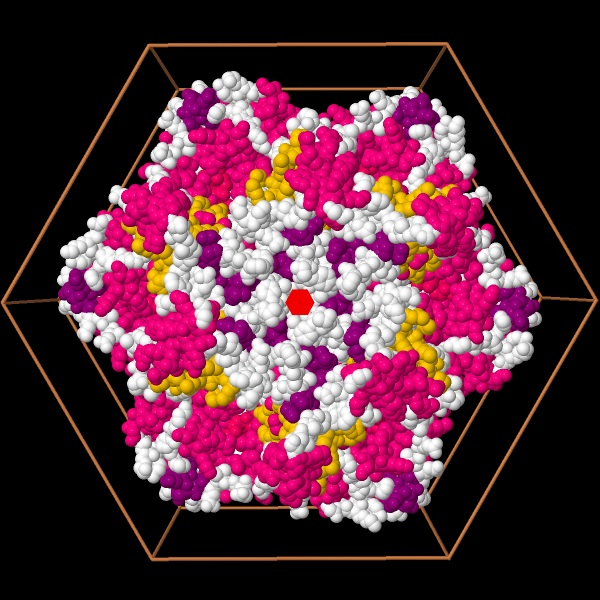 View from the top of the Ton-Lon hexamer. Coloring according to secondary structure